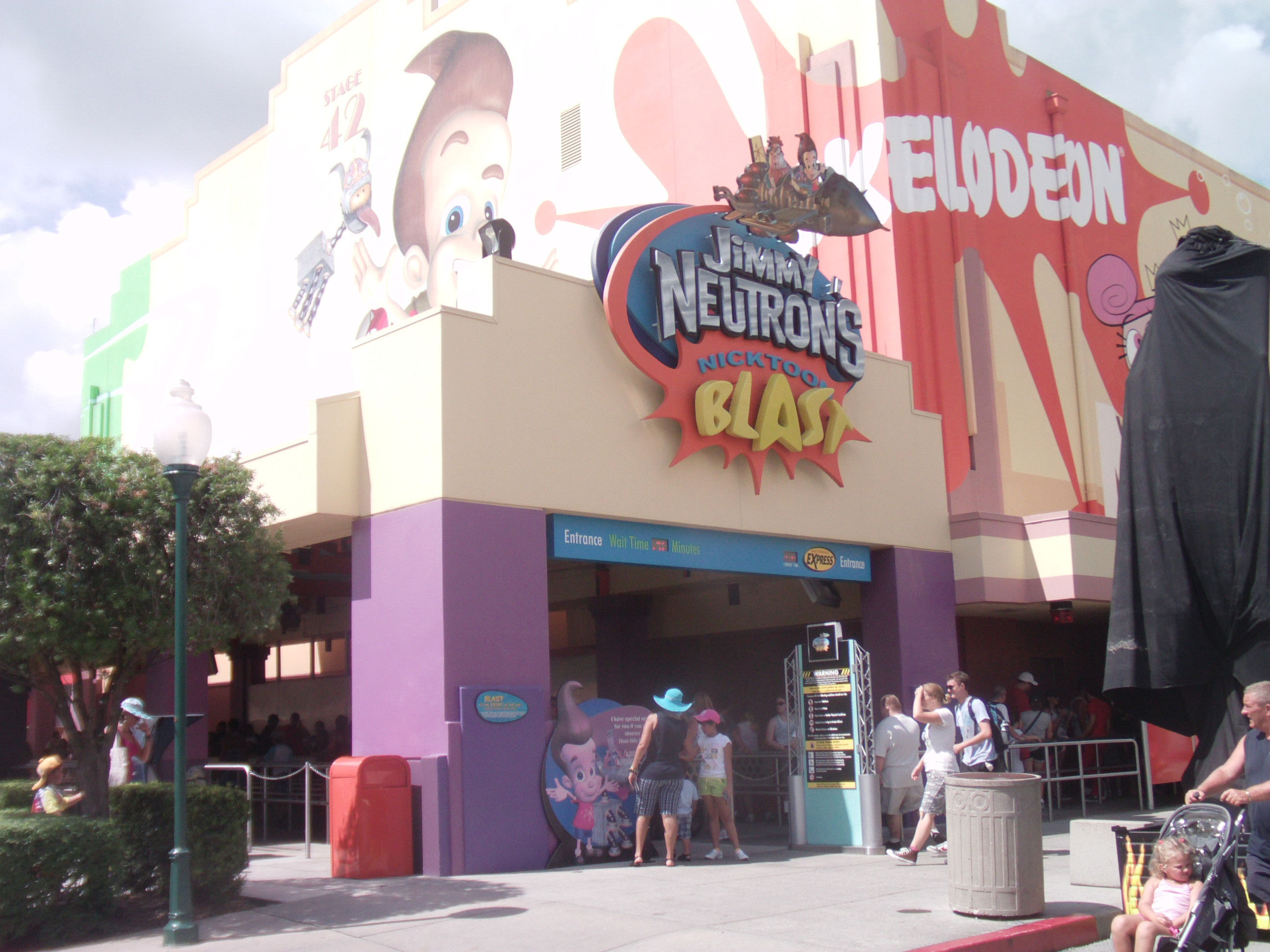 Entrance to Jimmy Neutron's Nicktoon Blast at Universal Studios Florida.